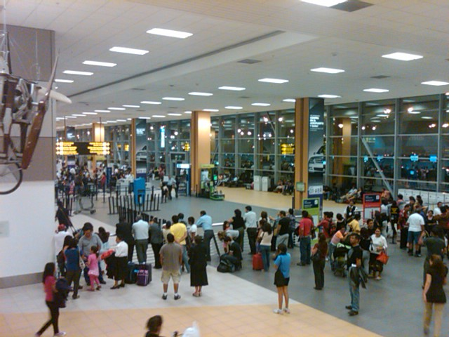 View of main terminal - Lima airport